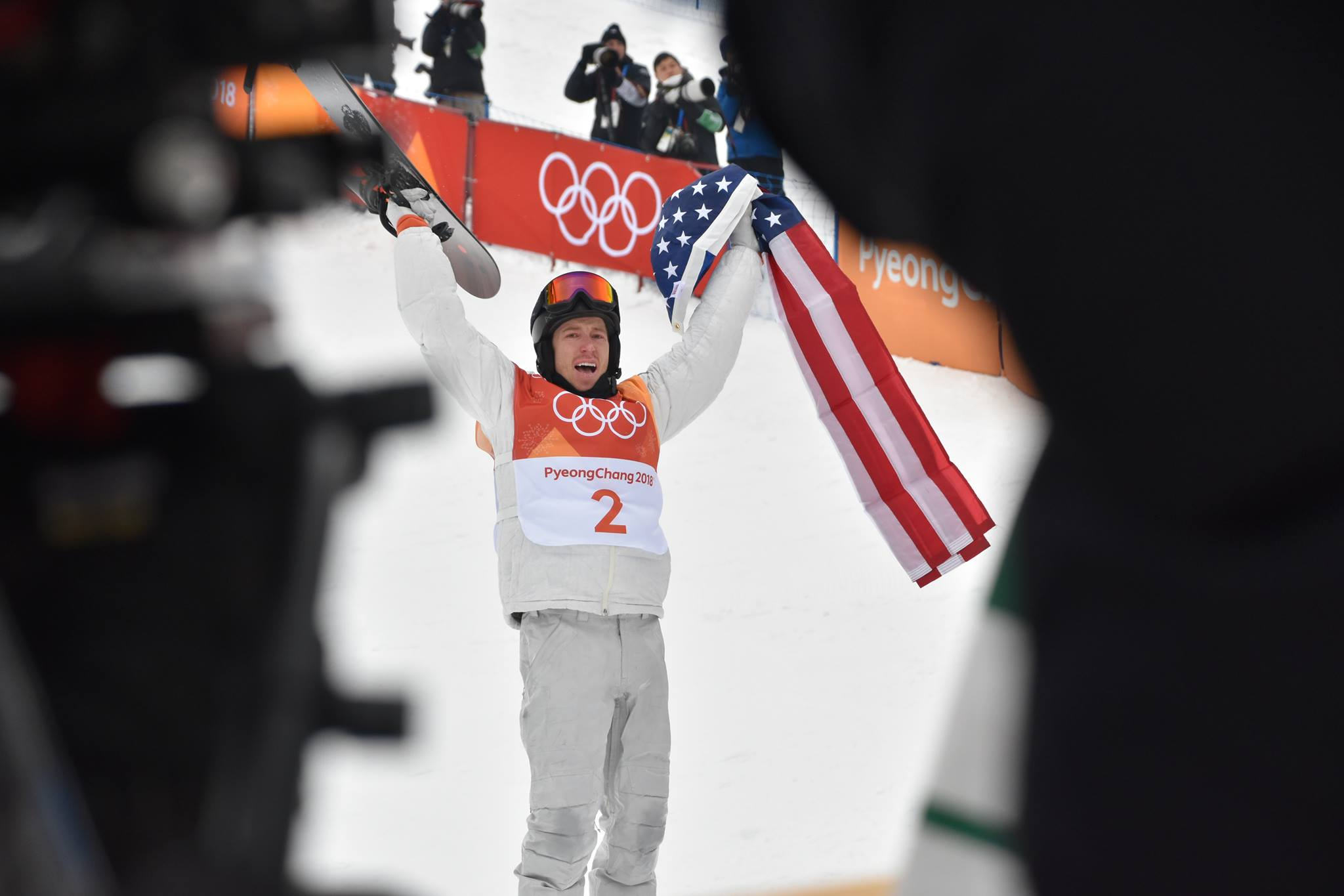 Shaun White 2018 Winter Olympics